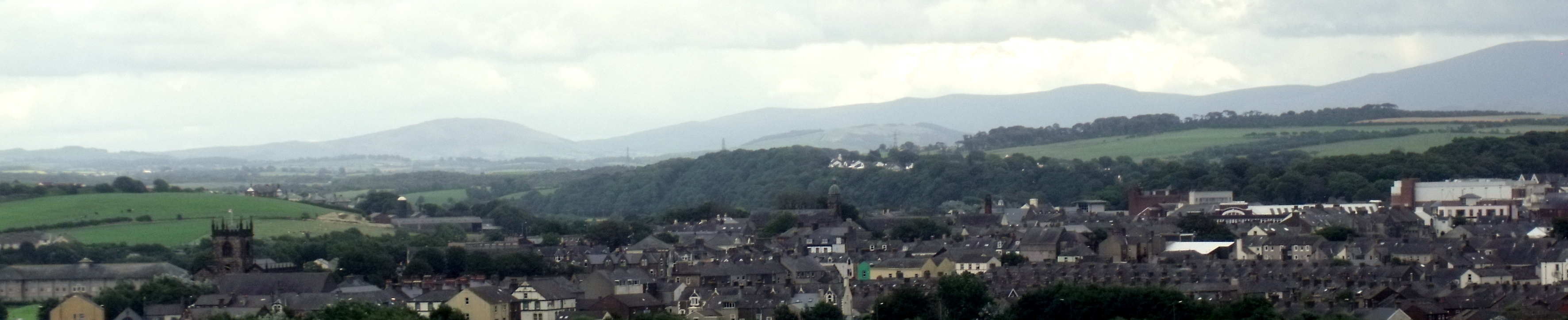 Skyline of Workington from the shoreline hills